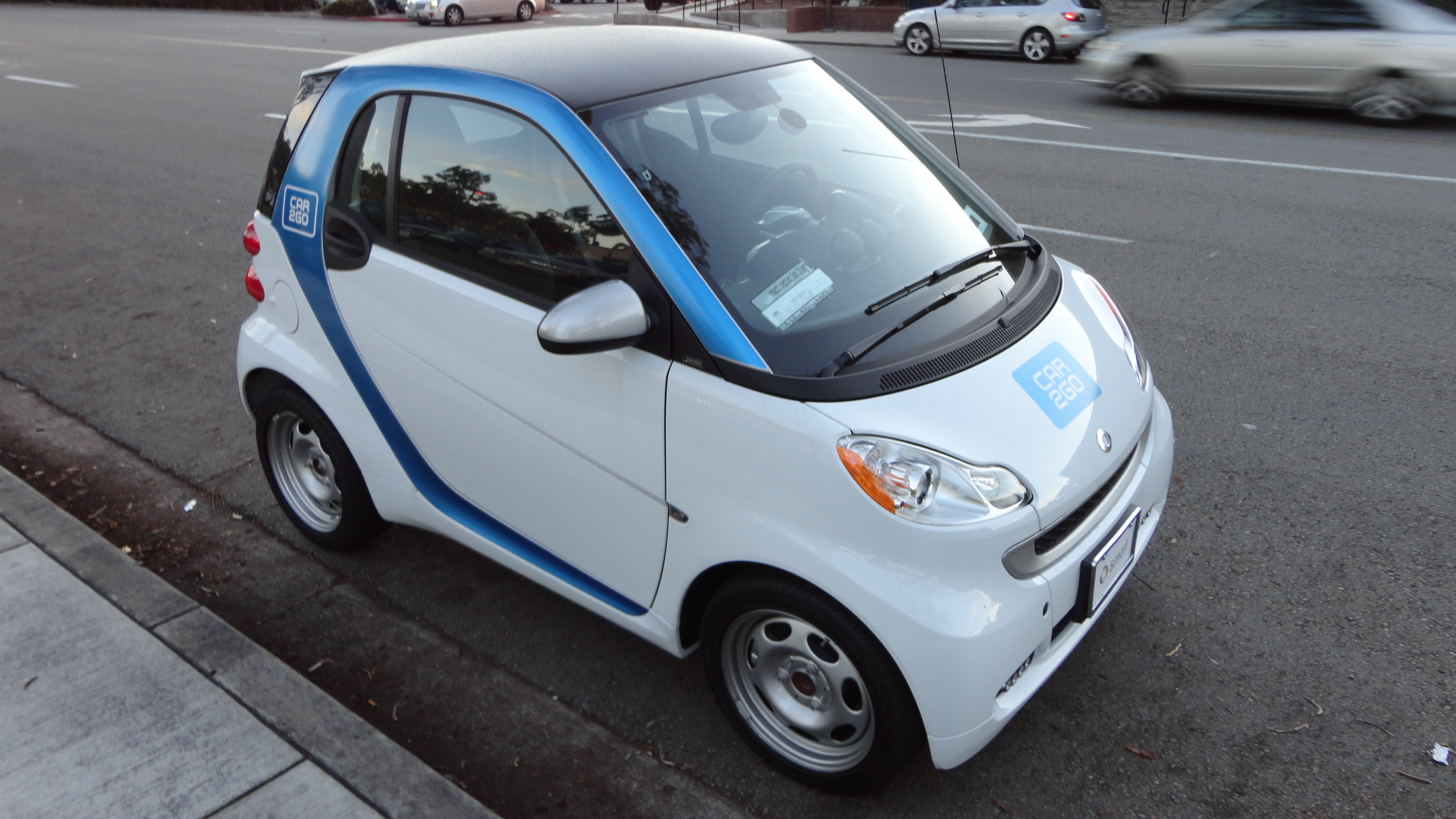 A rental Smart 451 Fortwo sitting outside the streets near Mission Valley Mall, San Diego, CA. Presumably ED.